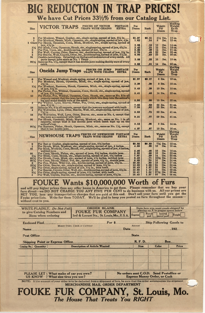 Fouke Fur Company, price list 1922.